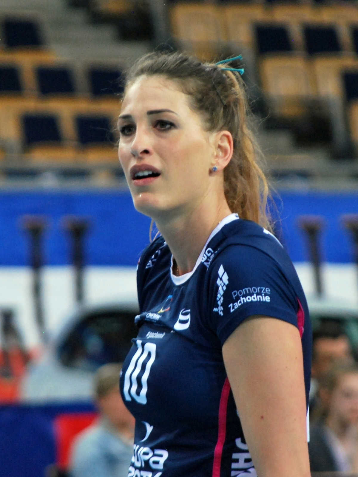 Berenika Tomsia, volleyball player from Poland